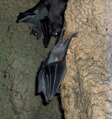 Species Rousettus egyptiacus Family Pteropodidae